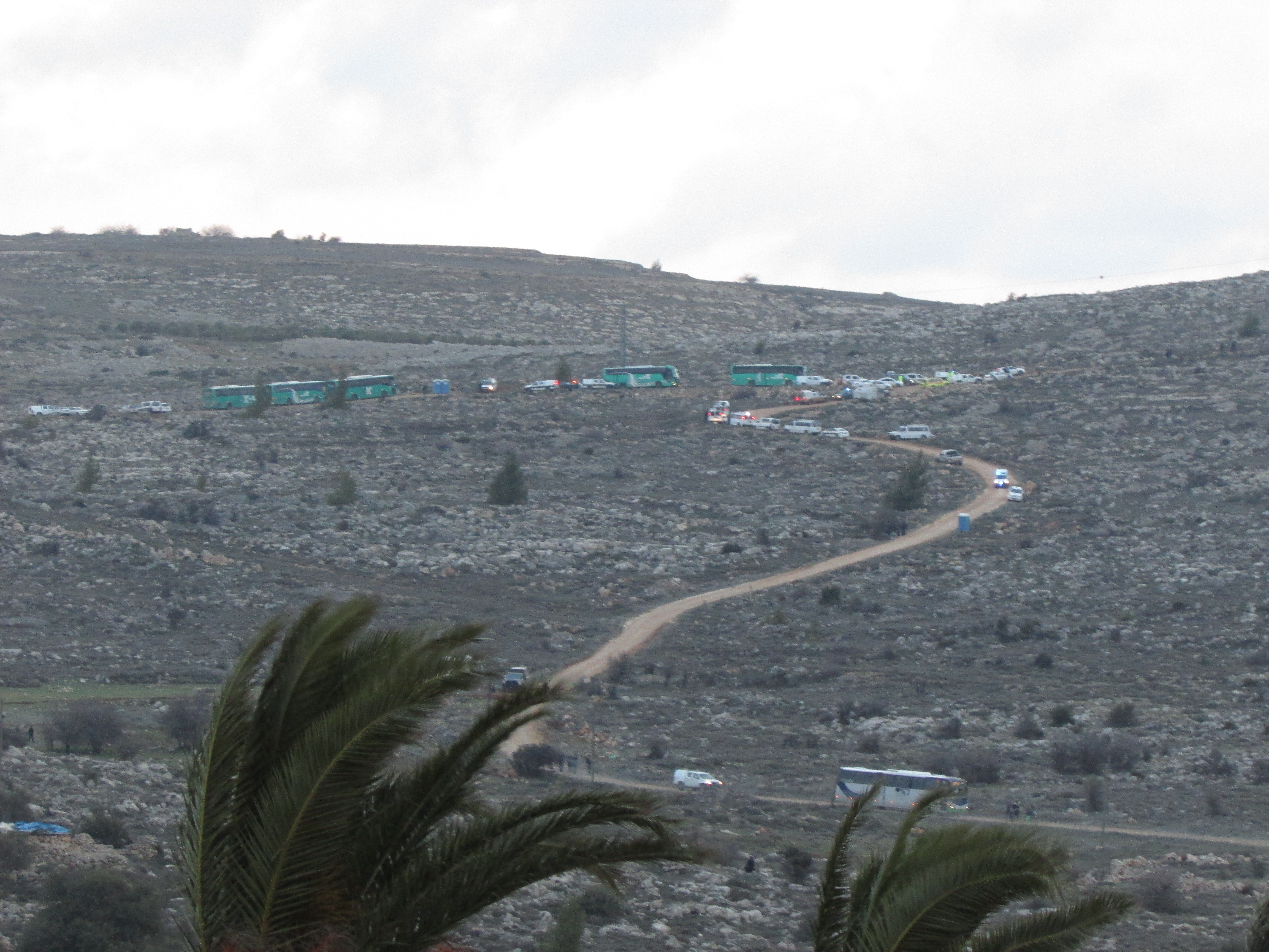 Evacuation of Amona. The day of the evacuation. The buses brought the soldiers.